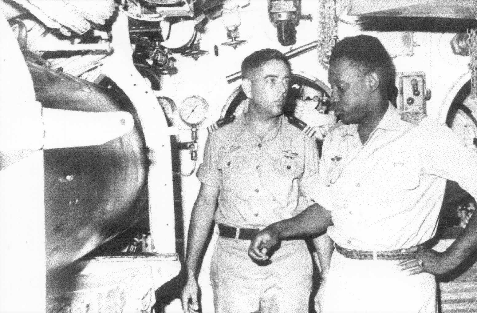 Mobutu Visit, Israel Defense Forces